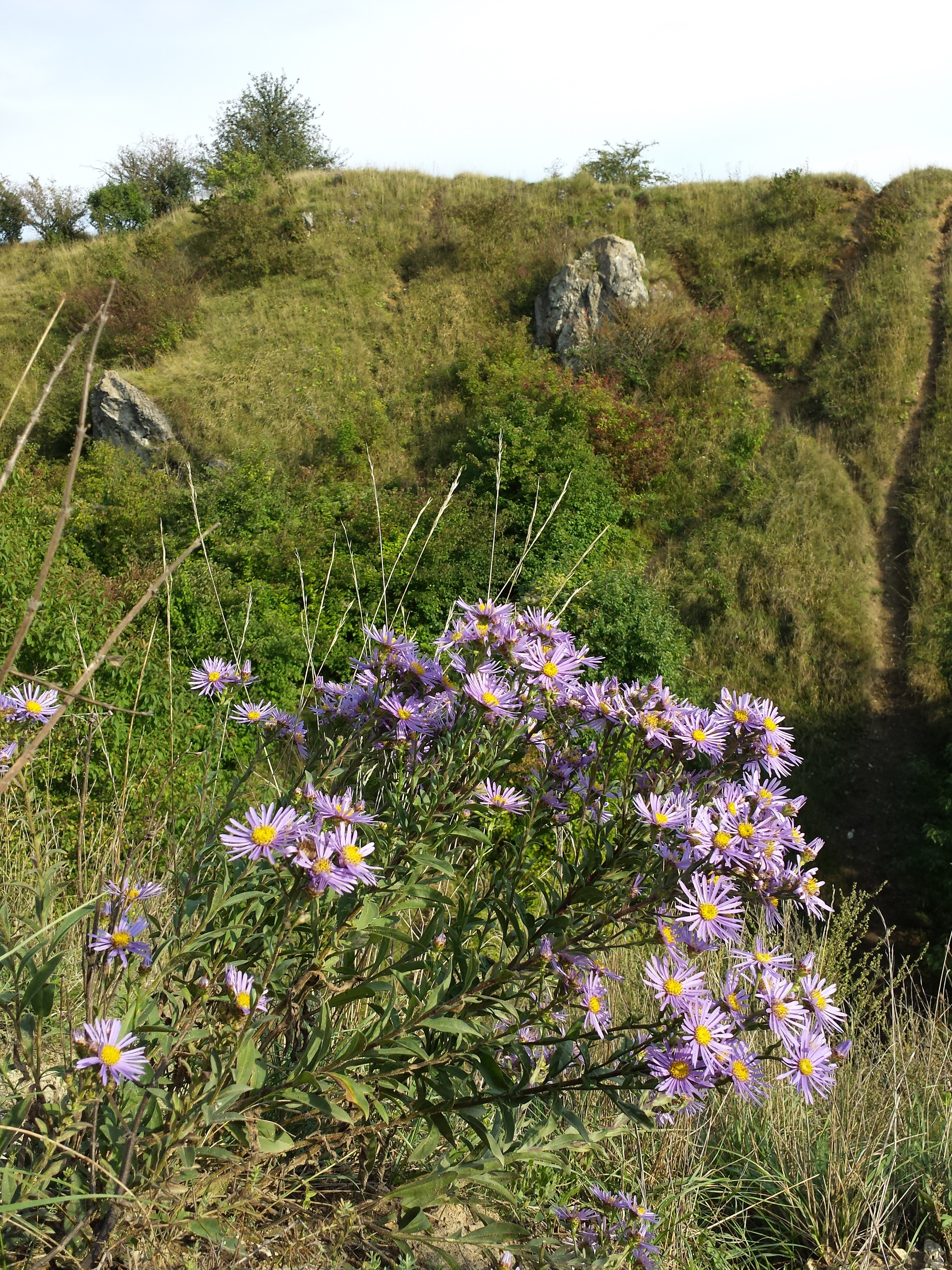 Habitus Taxon: Aster amellus (sensu Fischer et al. EfÖLS 2008 ISBN 978-3-85474-187-9) Location: Steinberg near Niederhollabrunn, district Korneuburg, Lower Austria - ca. 375 m a.s.l. Habitat: dry grassland